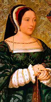 Queen Margaret Tudor of Scotland